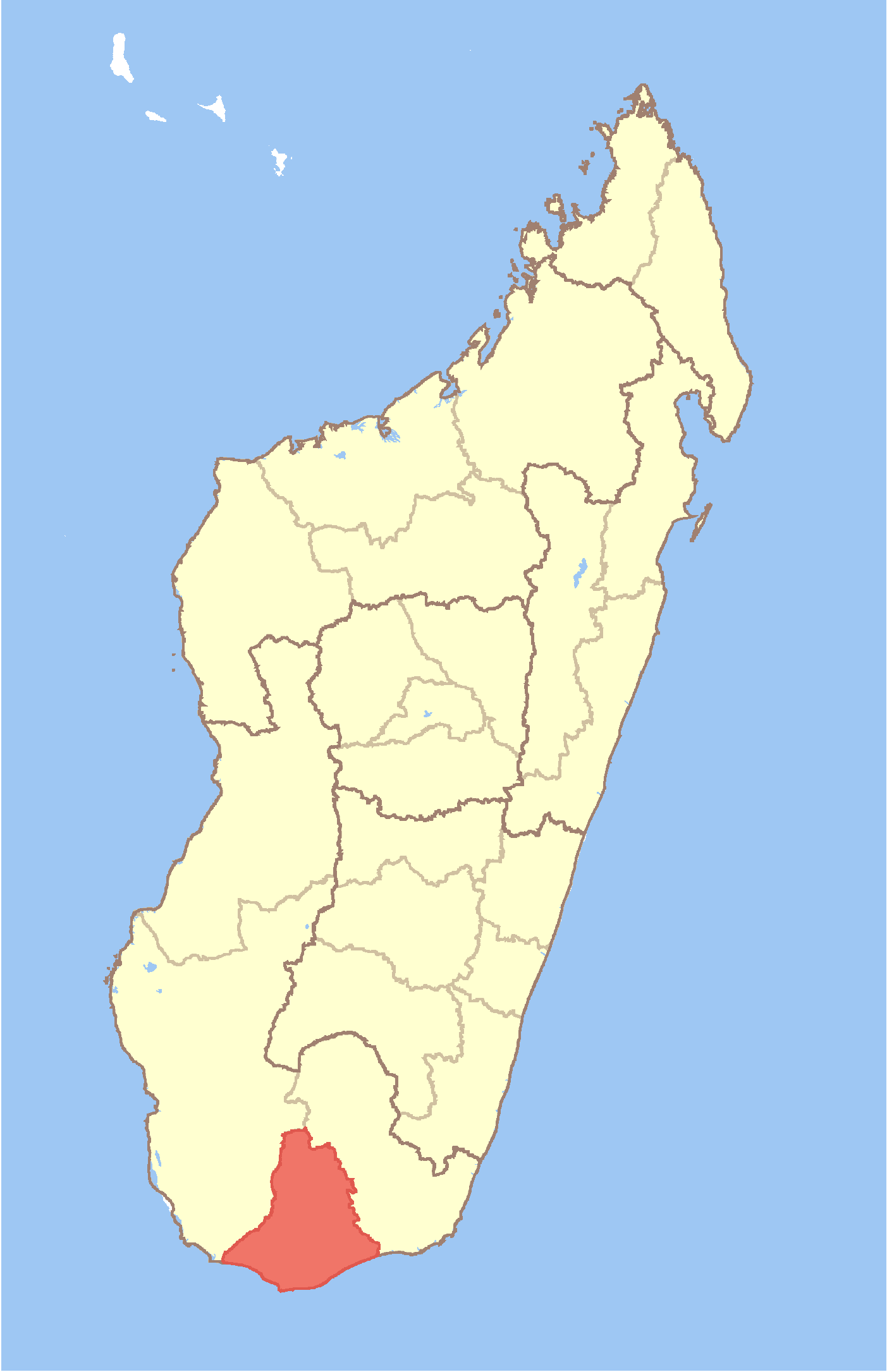 Map of Madagascar with Androy Region highlighted